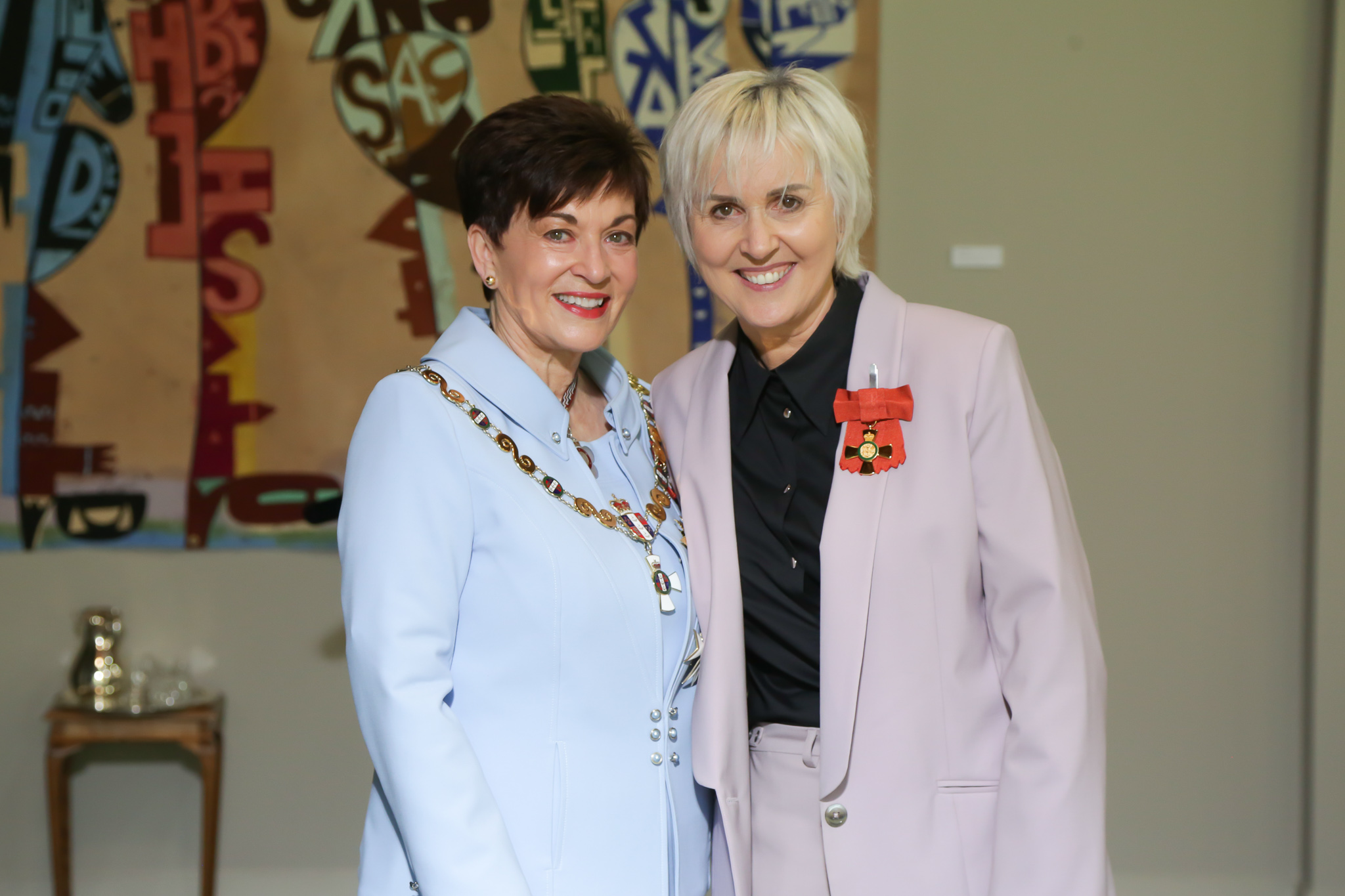 Karyn Hay (right), after her investiture as ONZM, for services to broadcasting and the music industry, by the governor-general, Dame Patsy Reddy, at Government House, Auckland, on 24 July 2020.